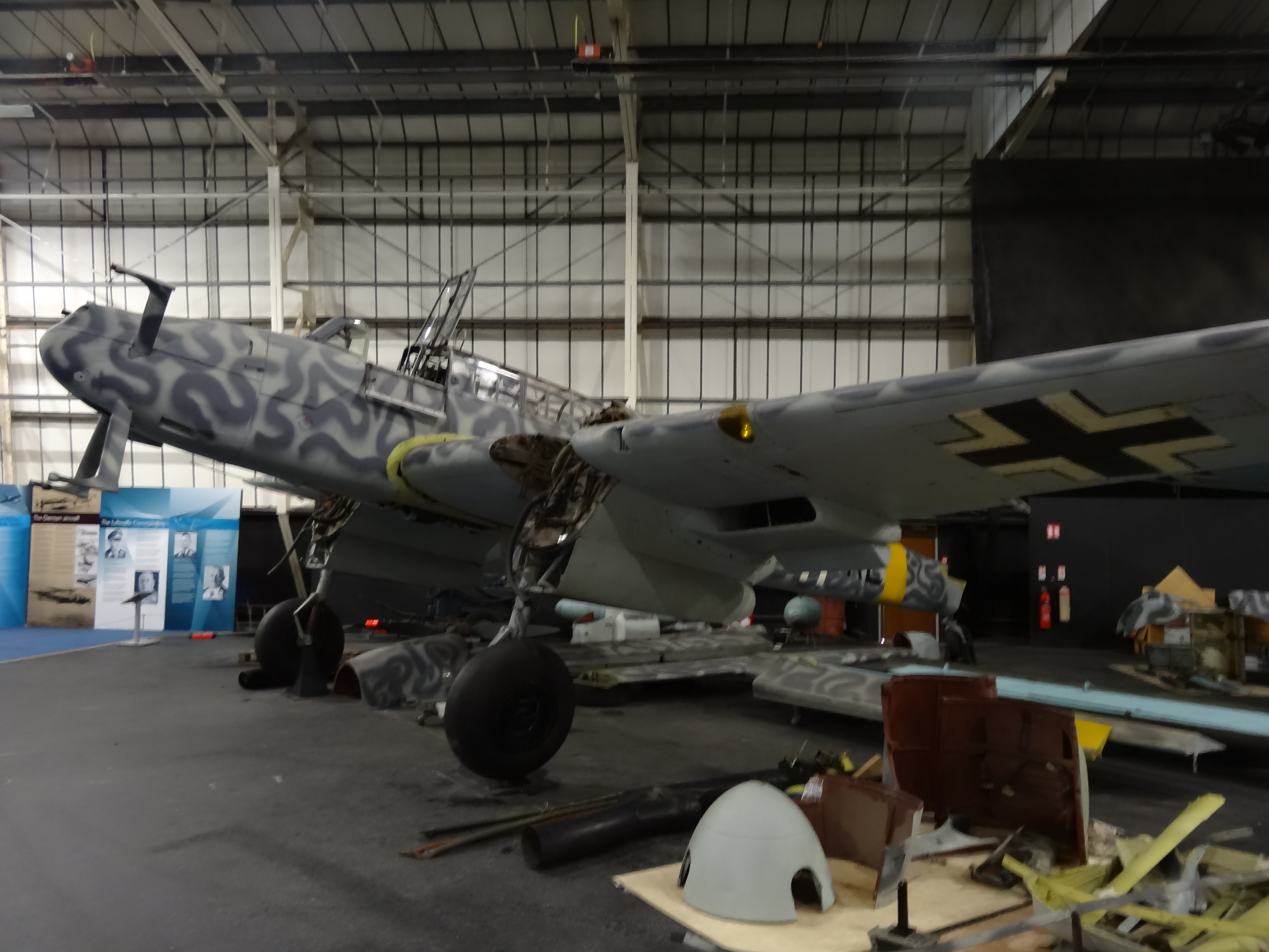 Messerschmitt Bf 110 730301